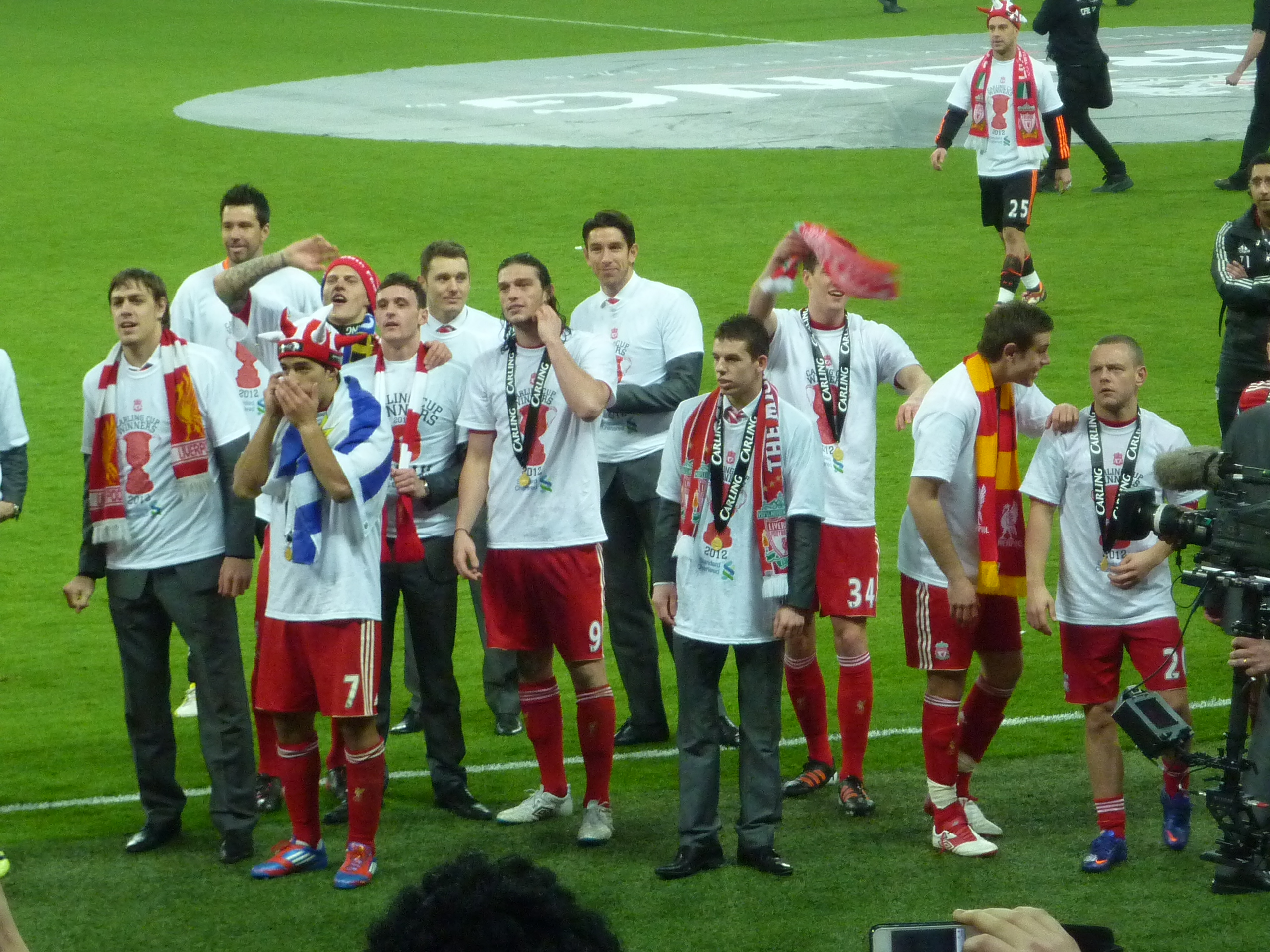 Liverpool players looking for their families after winning the Football League Cup Final in 2012.